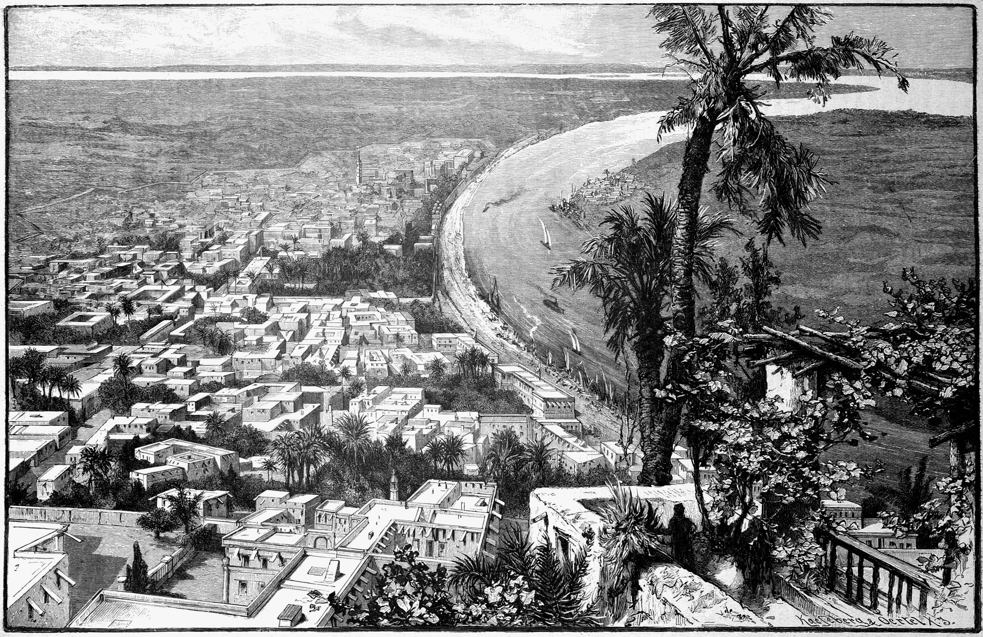 caption: "Chartum. Nach einer englischen Vorlage gezeichnet von R. Püttner."